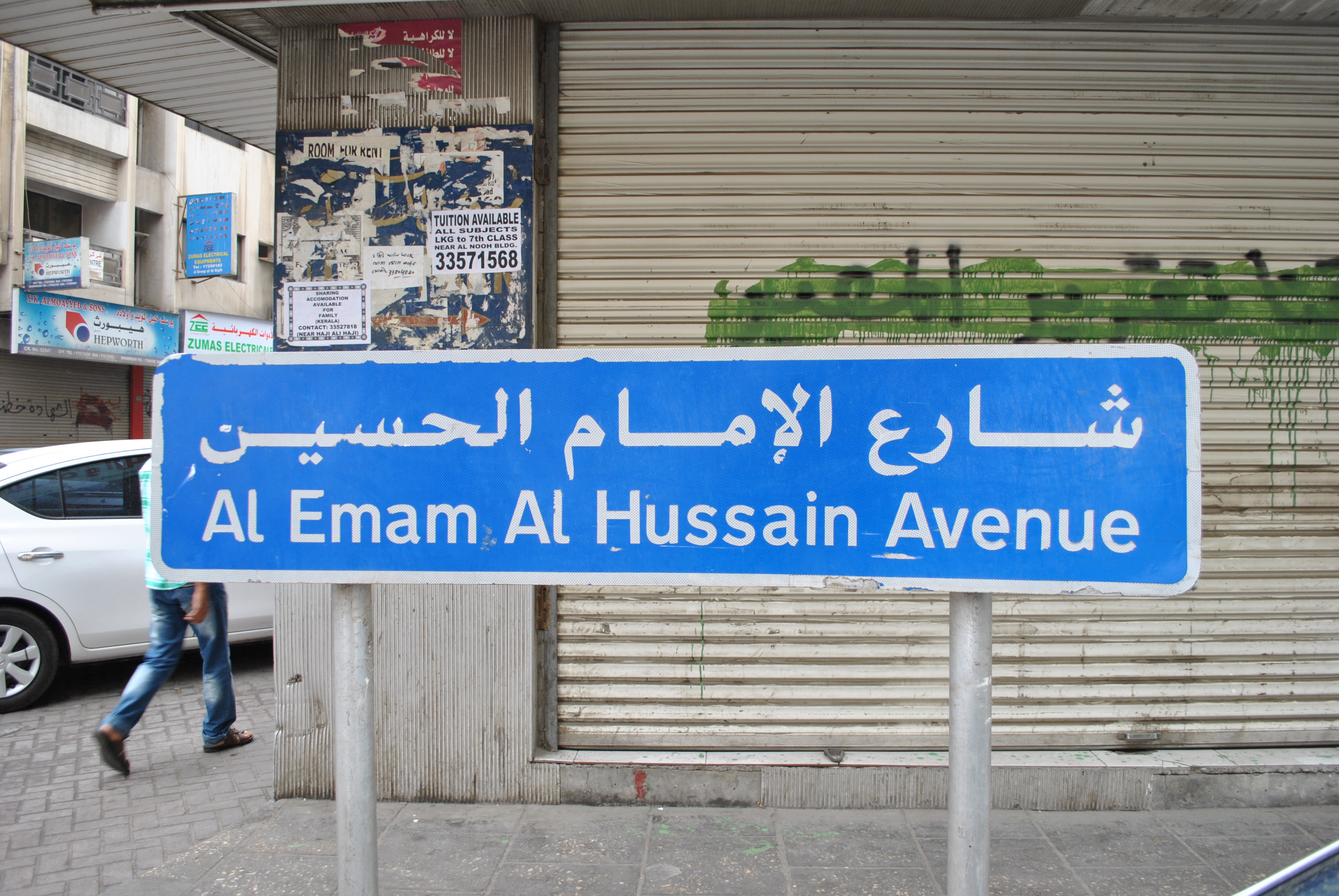 Road sign for Al Imam Al Hussain Avenue in Manama, Bahrain.